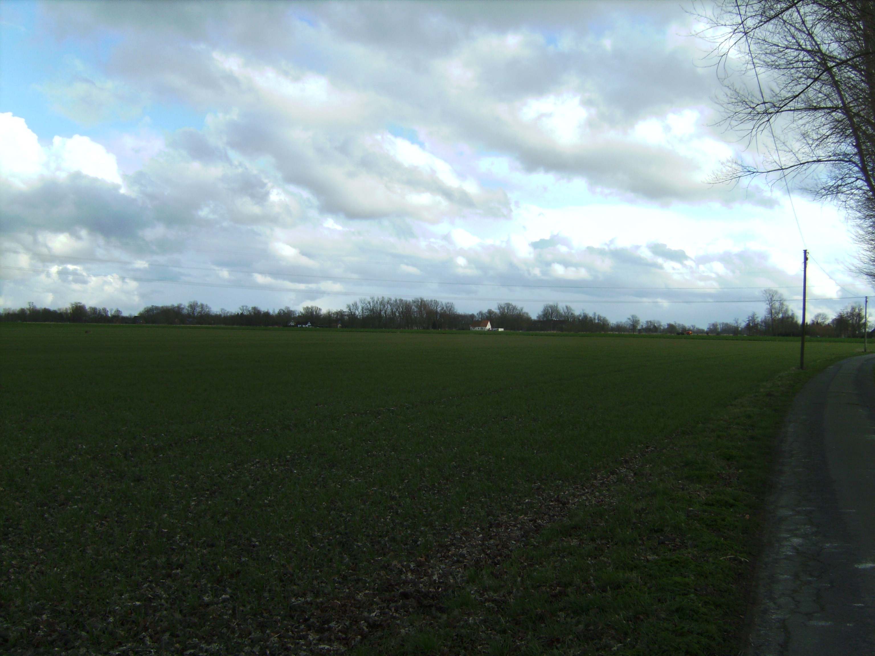 View at Katthusen, part of Neuenkirchen (Land Hadeln), Lower Saxony, Germany, from Northwest